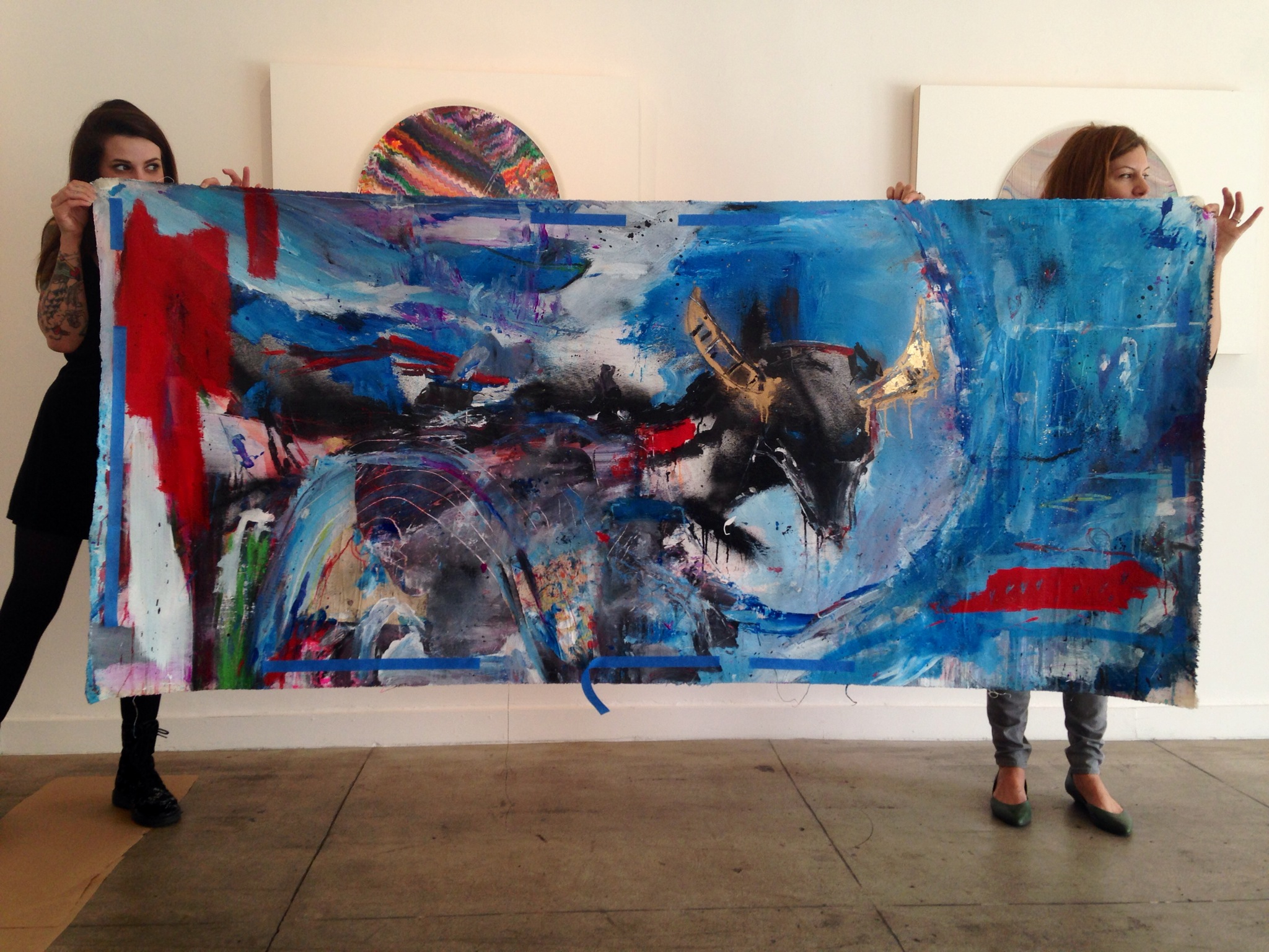 This is a better photograph of Gregory Siff's painting, bullfight in a motion picture industry and will replace the present photo of the works on the Gregory Siff wiki